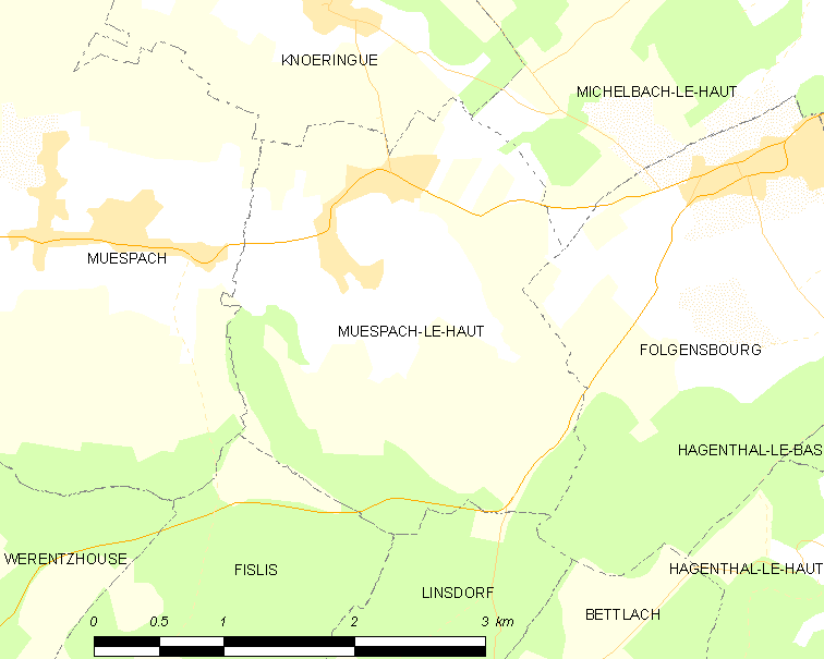 Map of French municipality